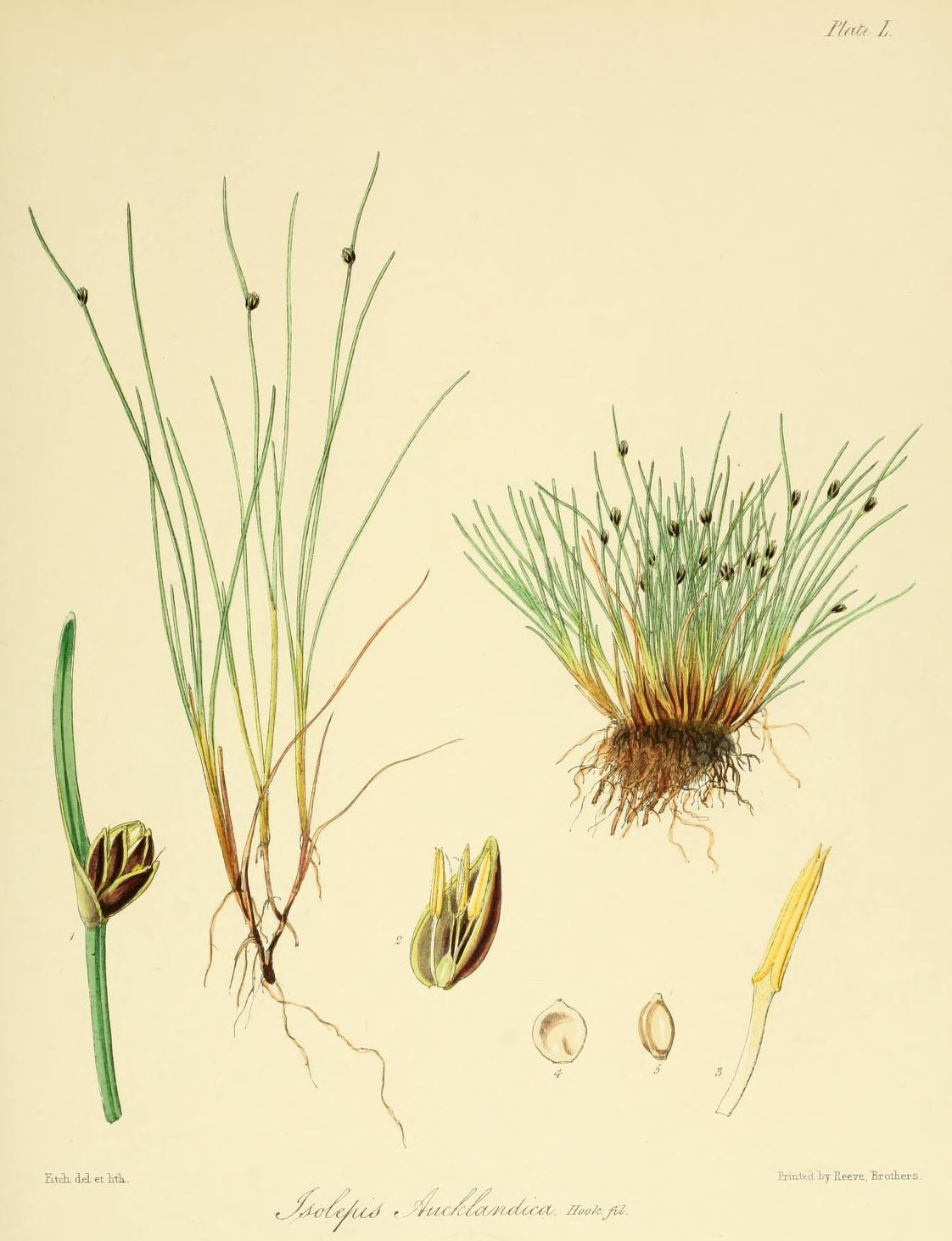 jpg of Plate L of Hooker's Flora Antarctica. Isolepis Aucklandica Hook. fil.